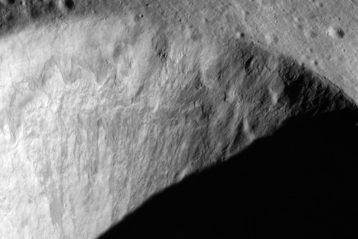 Oblique detail of north wall of Wollaston crater, on the moon, facing north.